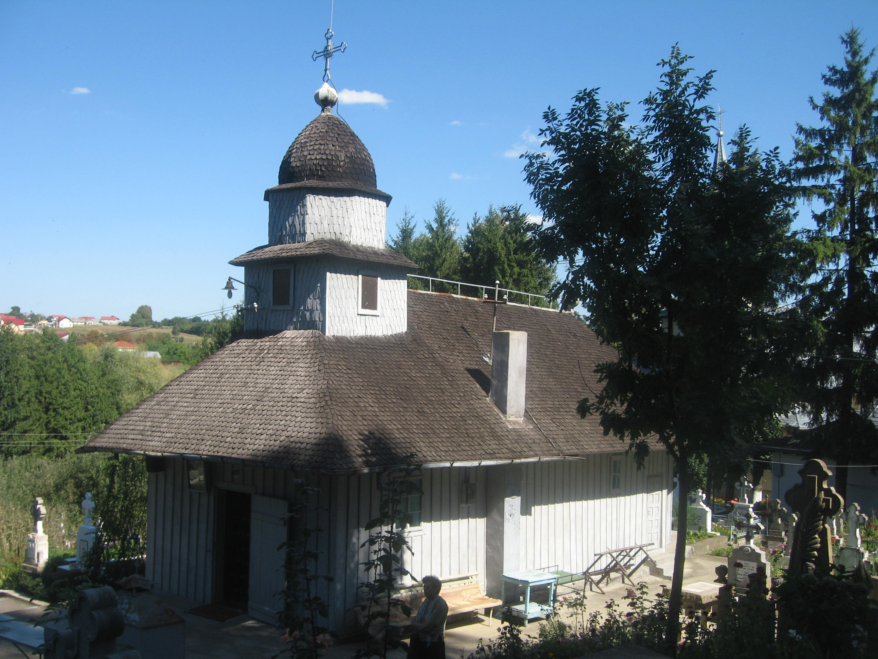 Wooden church in Fălticeni, Romania